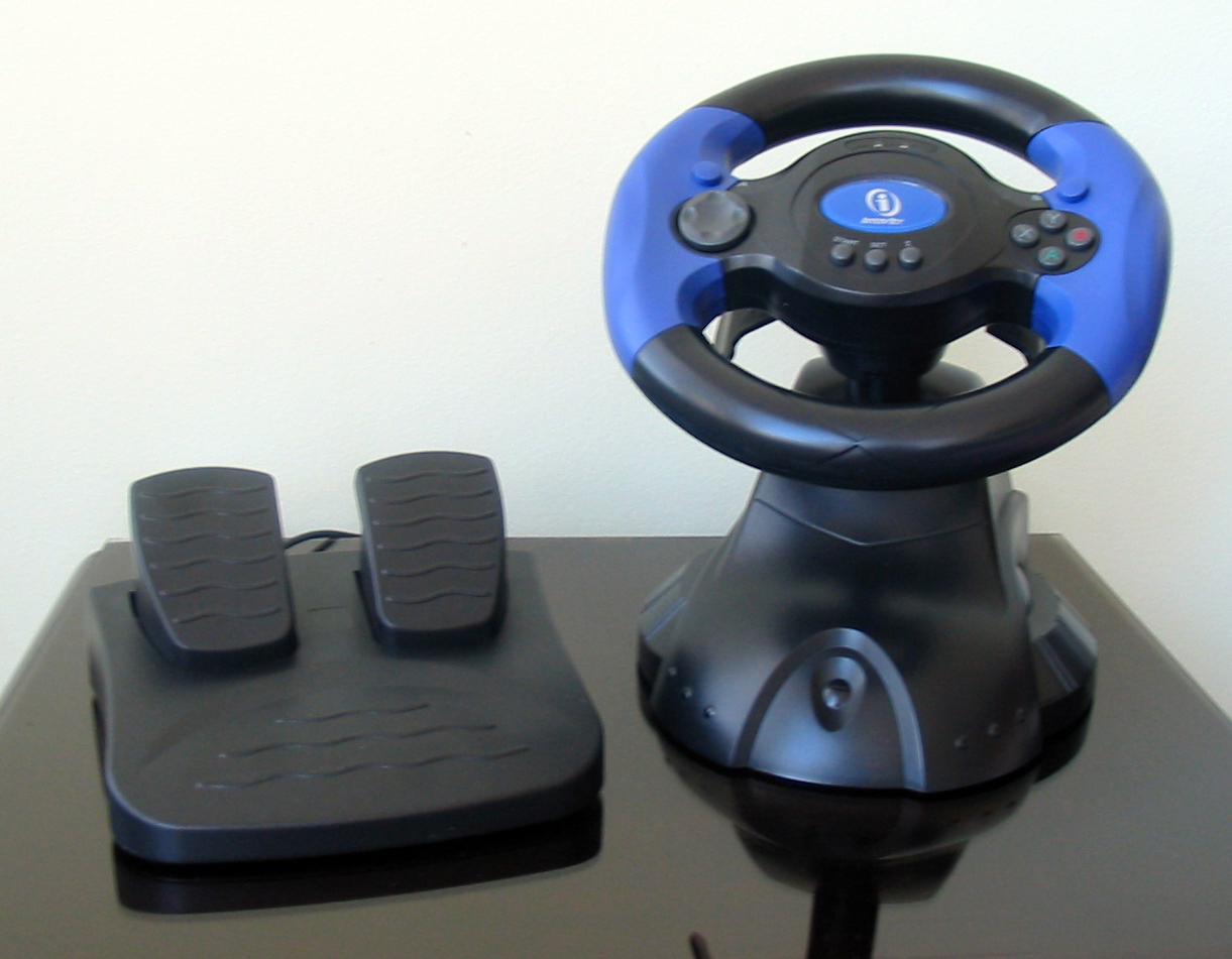 InterAct V-Thunder Racing Wheel for GameCube Controller.